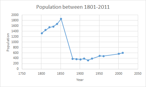 Total Population of Quenington, Gloucestershire, as reported by the Census of Population from 1801-2011